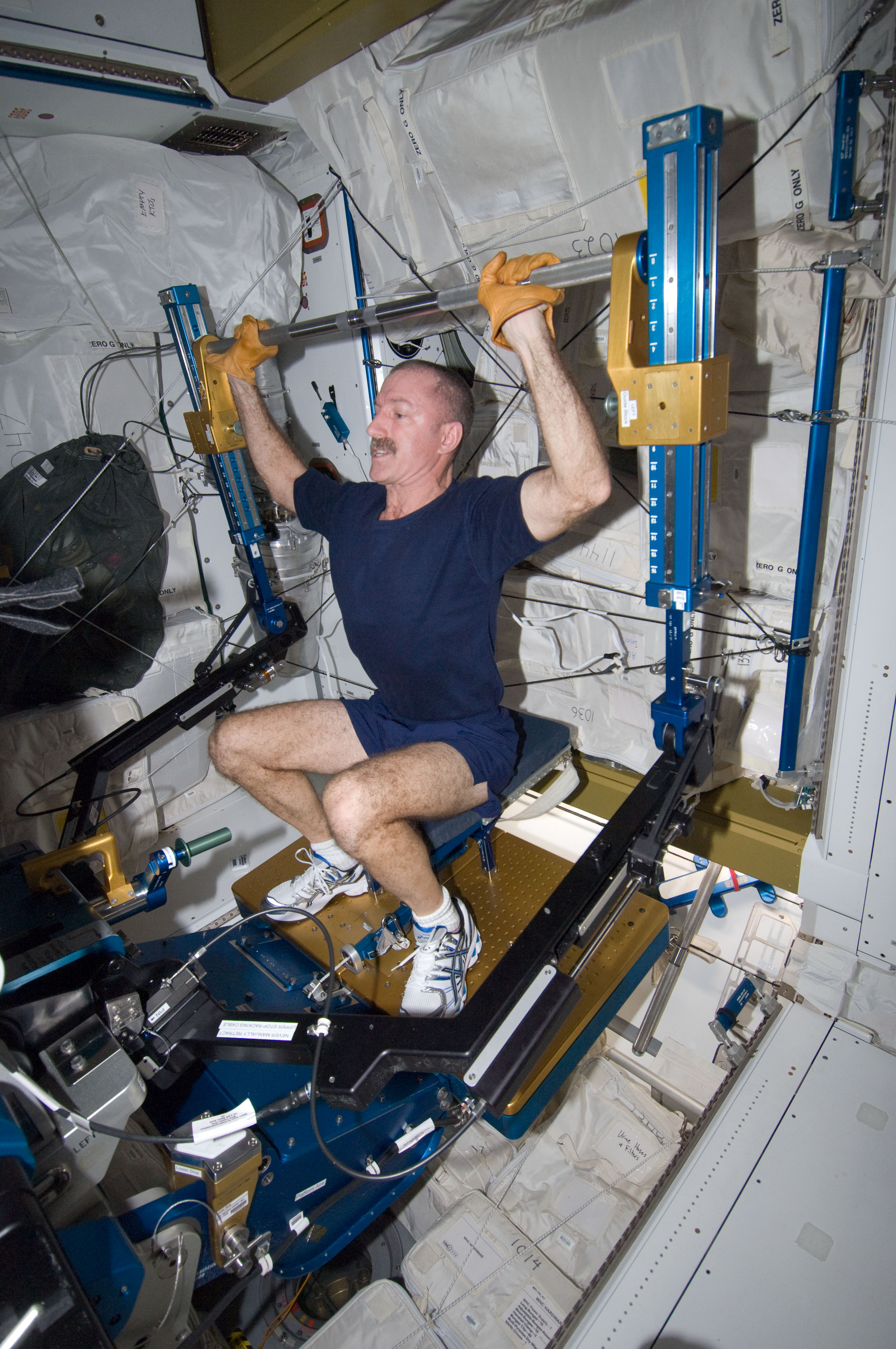 NASA astronaut Dan Burbank, Expedition 30 flight commander, exercises, using the advanced Resistive Exercise Device (aRED) in the Tranquility node of the International Space Station.